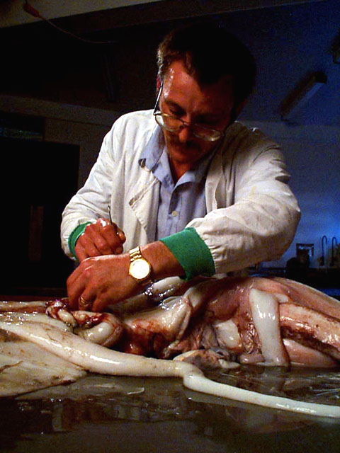 Photo from In Search of Giant Squid - 1999 Expedition Journals, Smithsonian Institution.